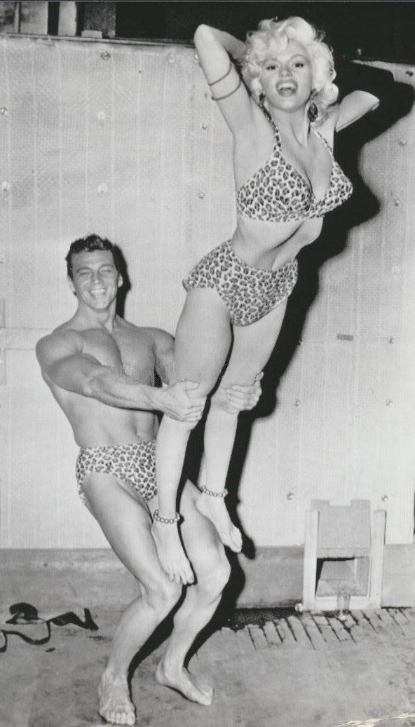 Original Jayne Mansfield Mickey Hargitay Press Photo 1956 Ballyhoo Ball Costume